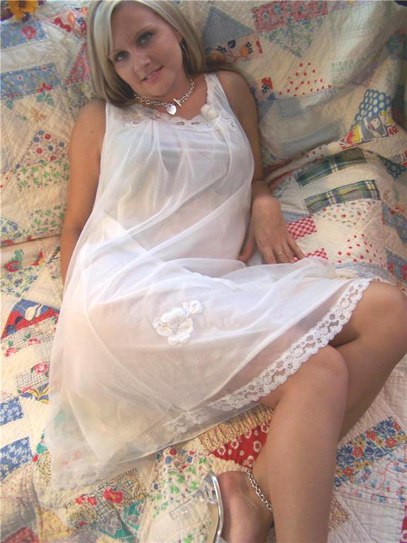 Woman wearing babydoll nightie.